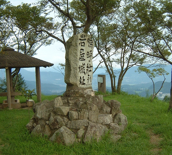 Monument of Iwaya castle in Dazaifu, Fukuoka, Japan